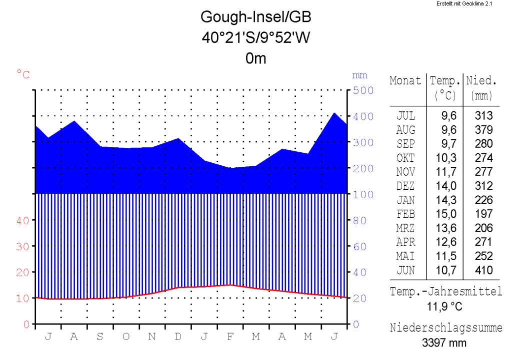 climate chart in the format by Walter and Lieth, metric, °Celsisus and millimeters, made with Geoklima 2.1